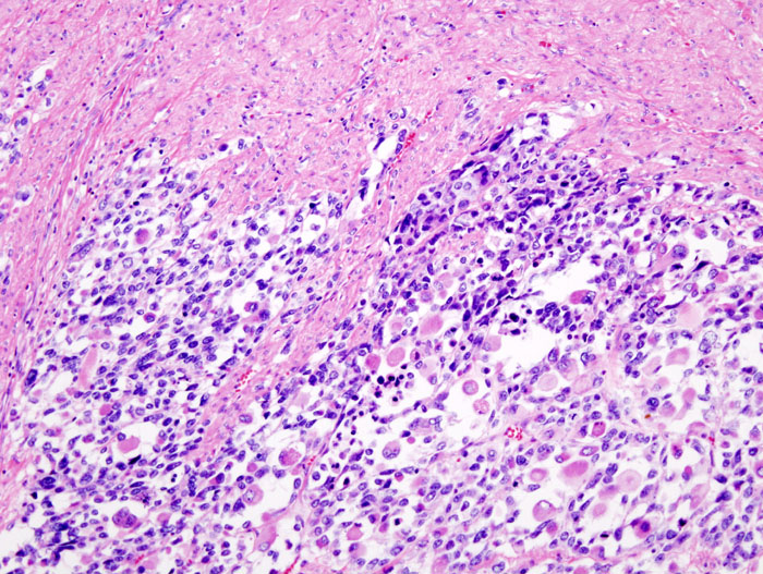 Histopathogic image of uterine carcinosarcoma (Müllerian mixed tumor). H & E stain. Uterine carcinosarcoma arising in the endometrial cavity often shows a highly aggressive behavior. This case predominantly exhibits rhabdomyosarcomatous differentiation. This picture shows a myometrial invasion of rhabdomyosarcoma cells.